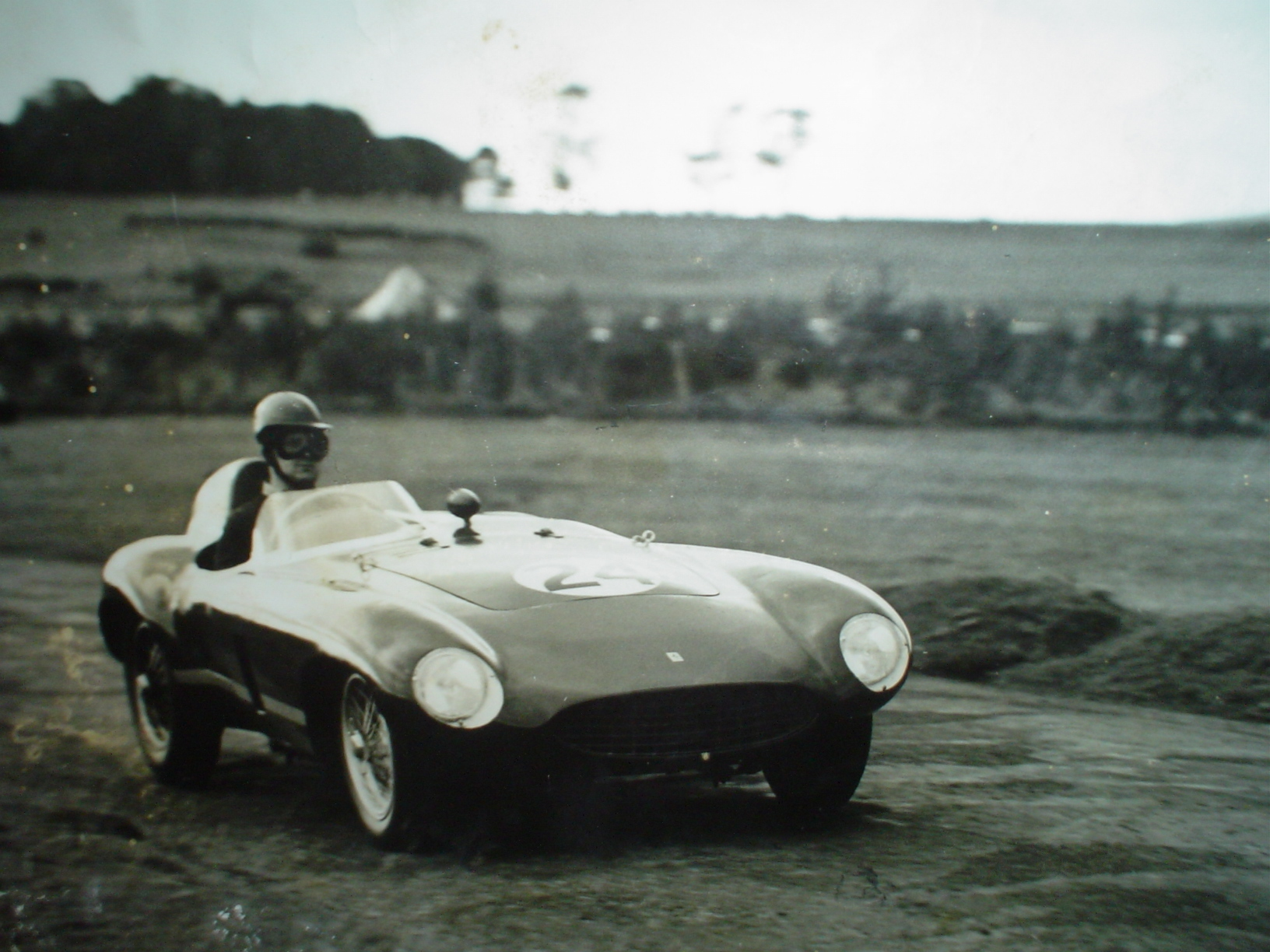 joe kelly driving ferrari monza